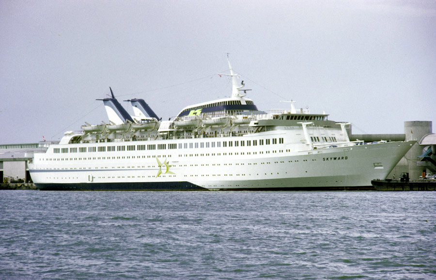 The cruise ship Skyward moored in Miami's harbor in December 1980.